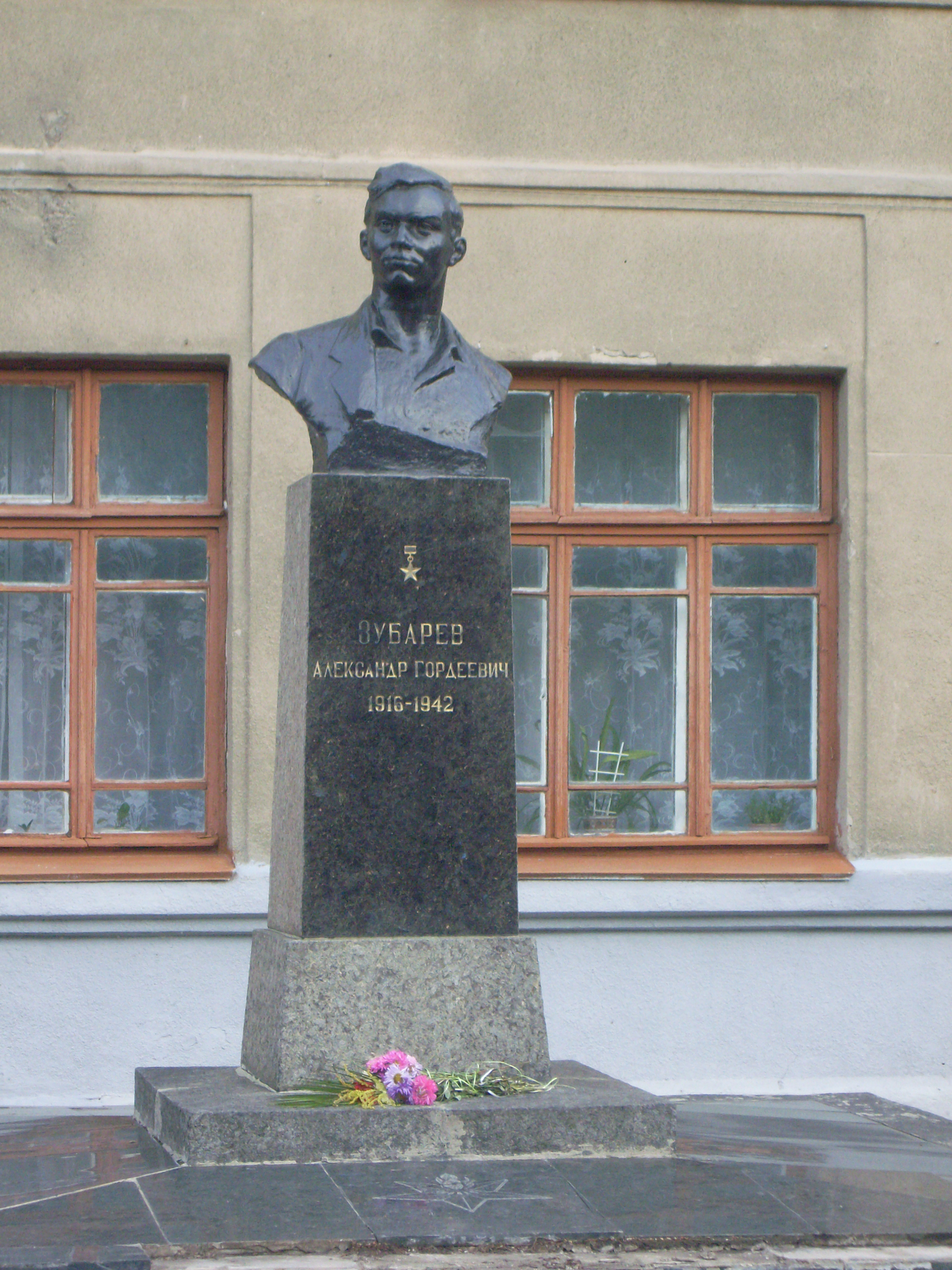 Monument to Alexander Zubarev, Soviet undergrounder in the years of Great Patriotic War.